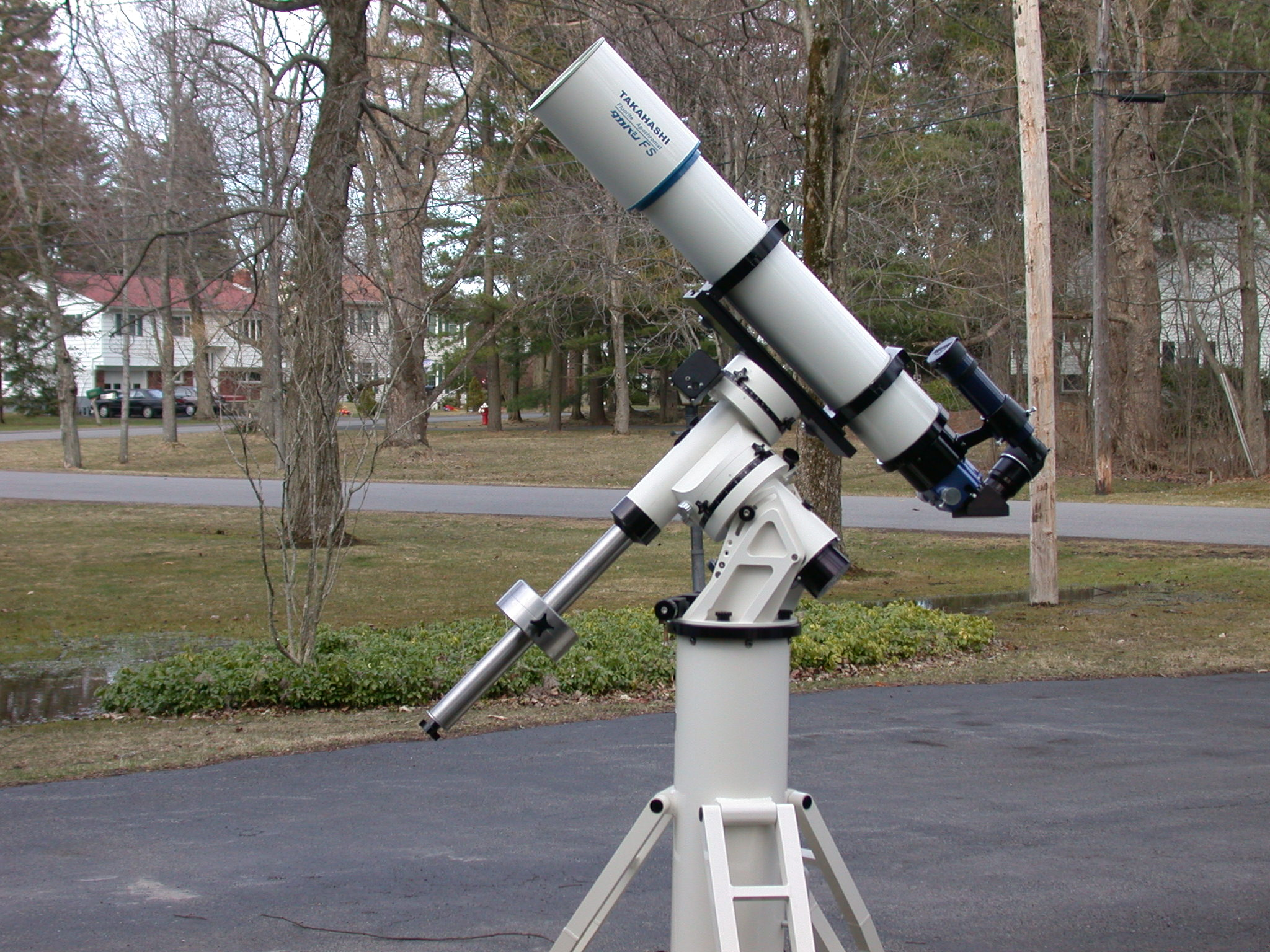 Astro-Physics German Equatorial Mount carrying a Takahashi Fluorite doublet 128mm f/8.1 refractor, aftermarket moonlite focuser; all supported by an ATS portable pier